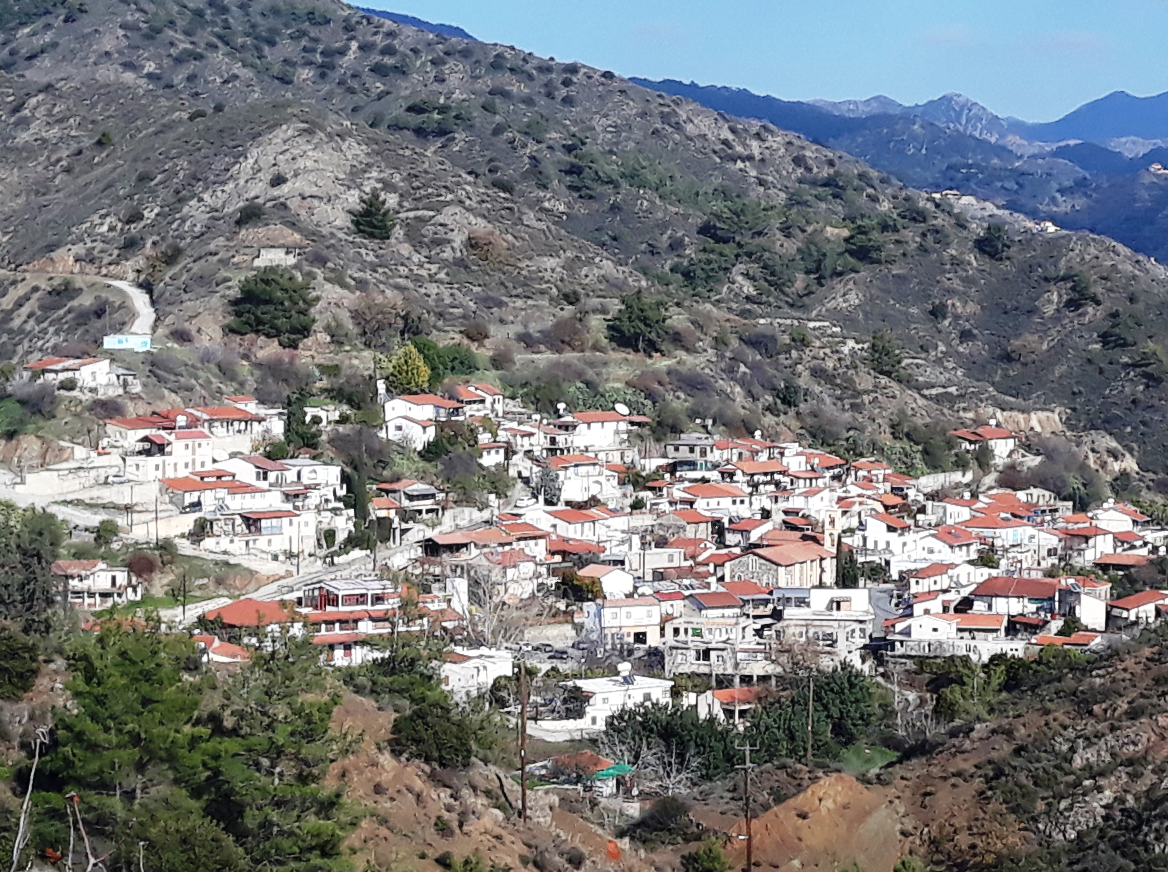 View of Kalo Chorio, Limassol.